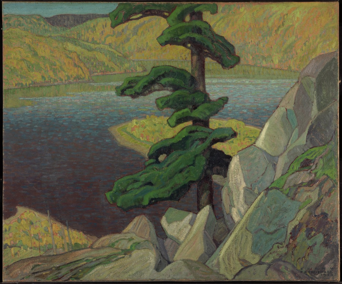 Franklin Carmichael, The Upper Ottawa, near Mattawa, 1924, oil on canvas, 101.5 x 123.1 cm